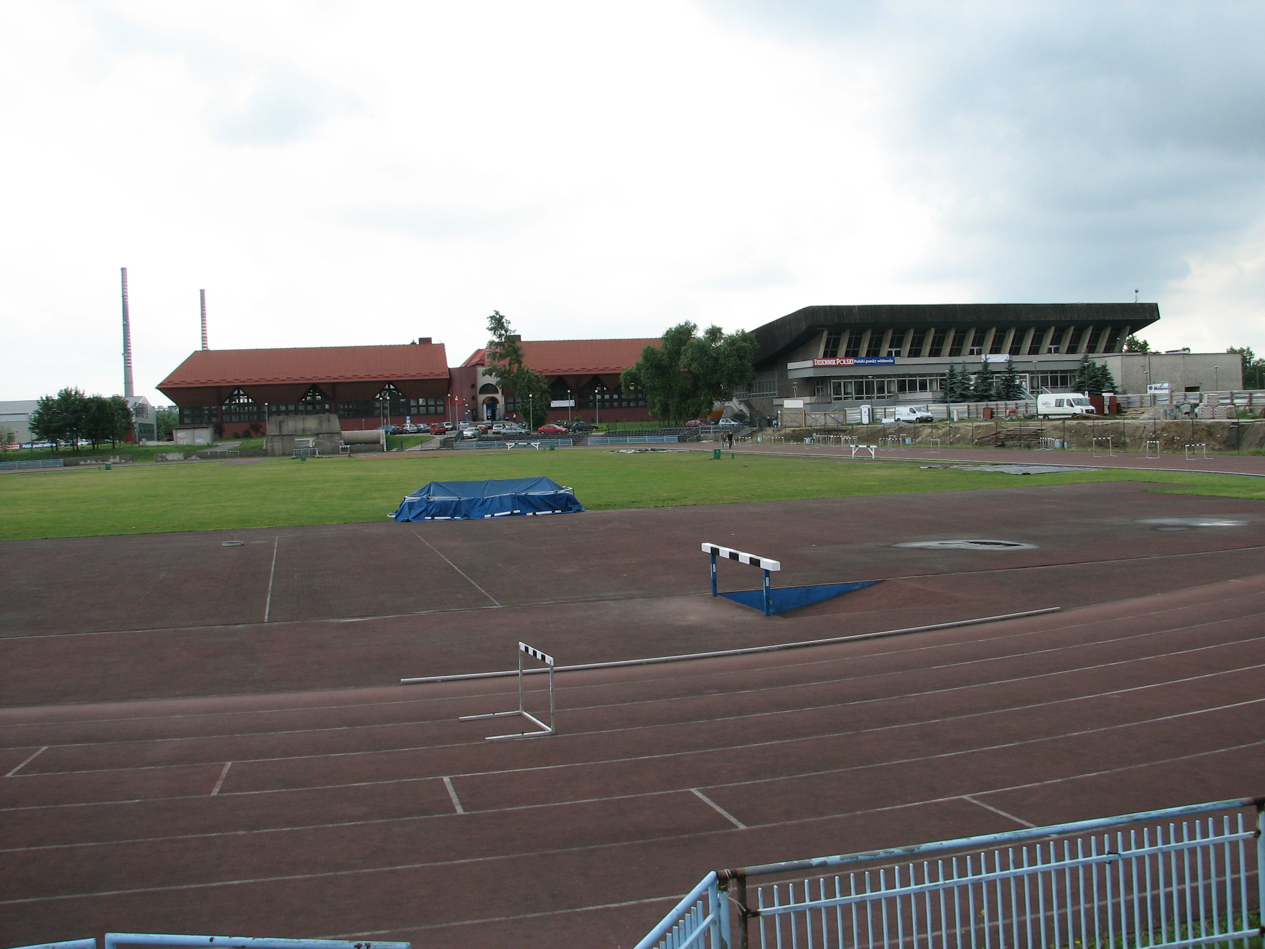 stadium of AWF in Cracow near Aleja Jana Pawła II